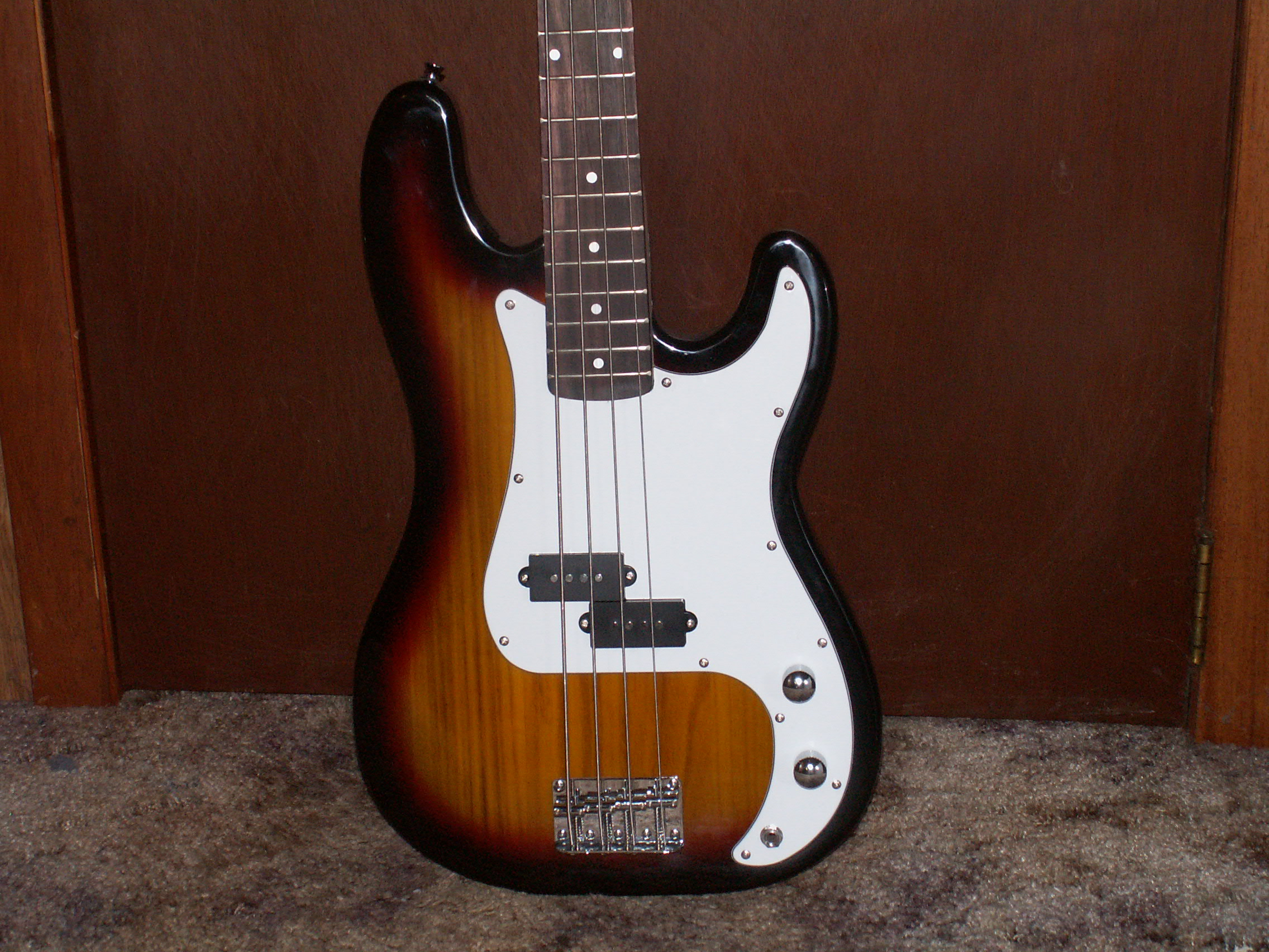 4-string Precision bass